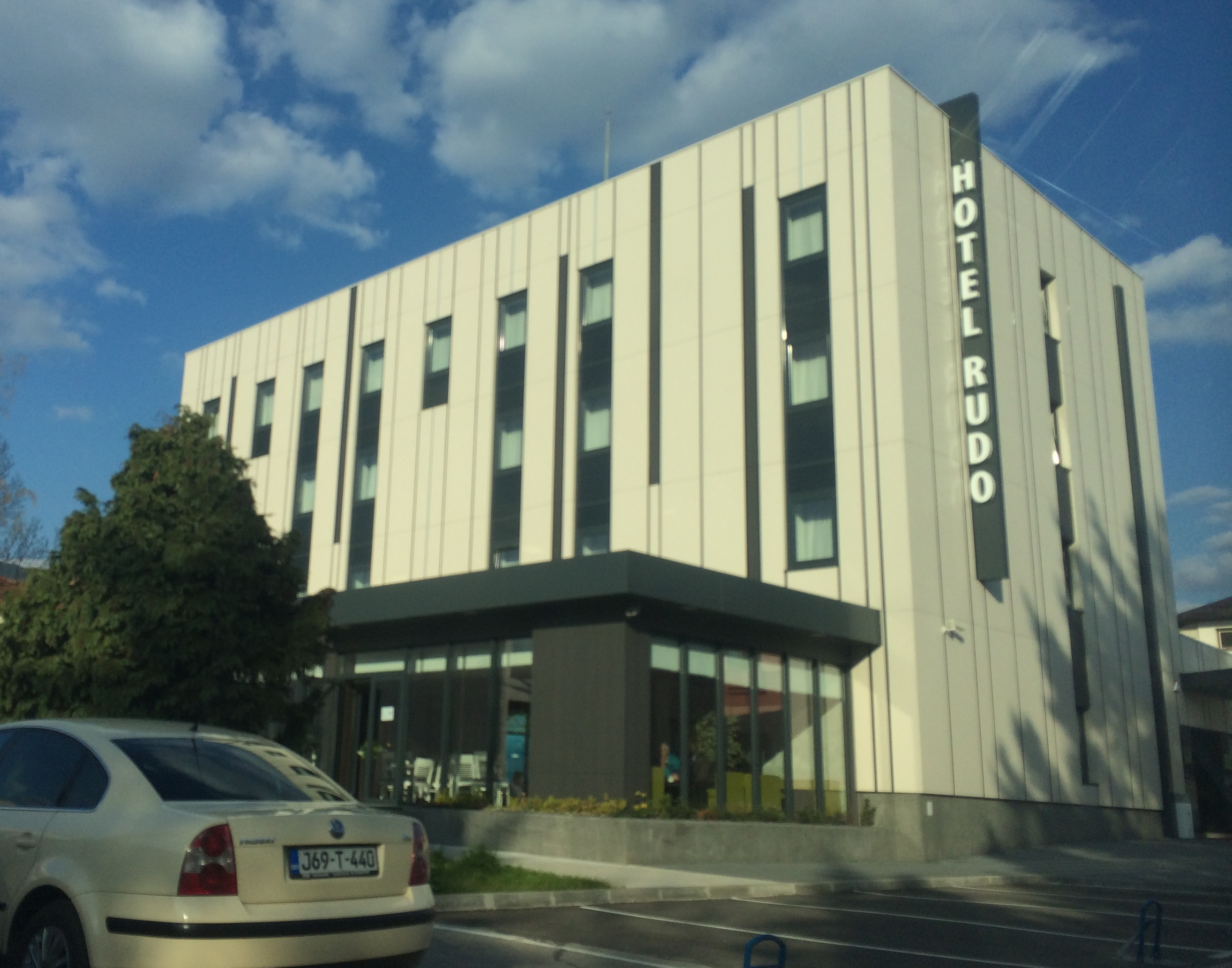 Image from the border city of Rudo, center of Rudo municipality in southeastern Bosnia-Hercegovina. The city has both a mosque and an orthodox church, and a bridge across the Lim spanning from Serbia into Bosnia at Rudo.